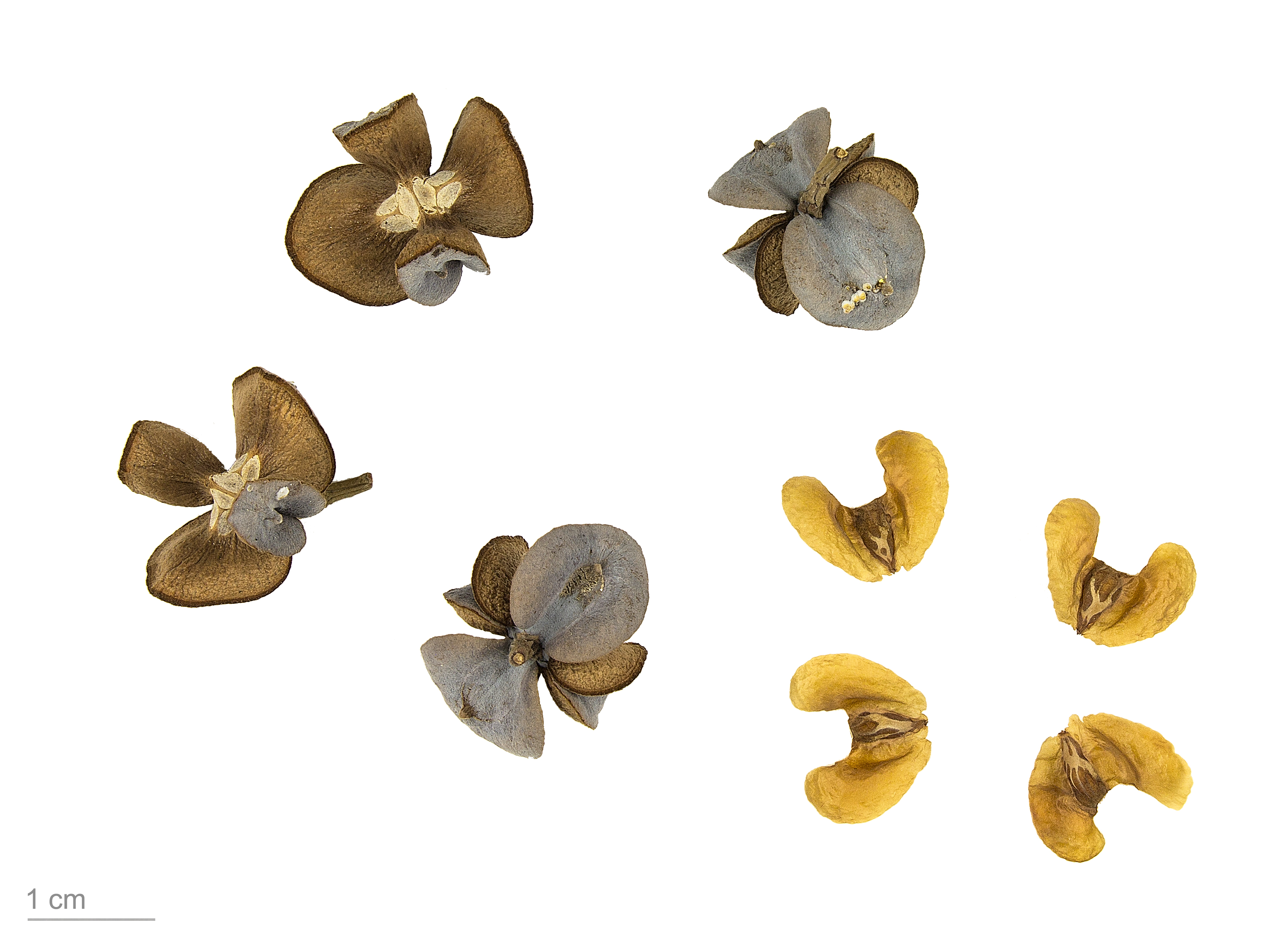 Sandarac, cones and seeds